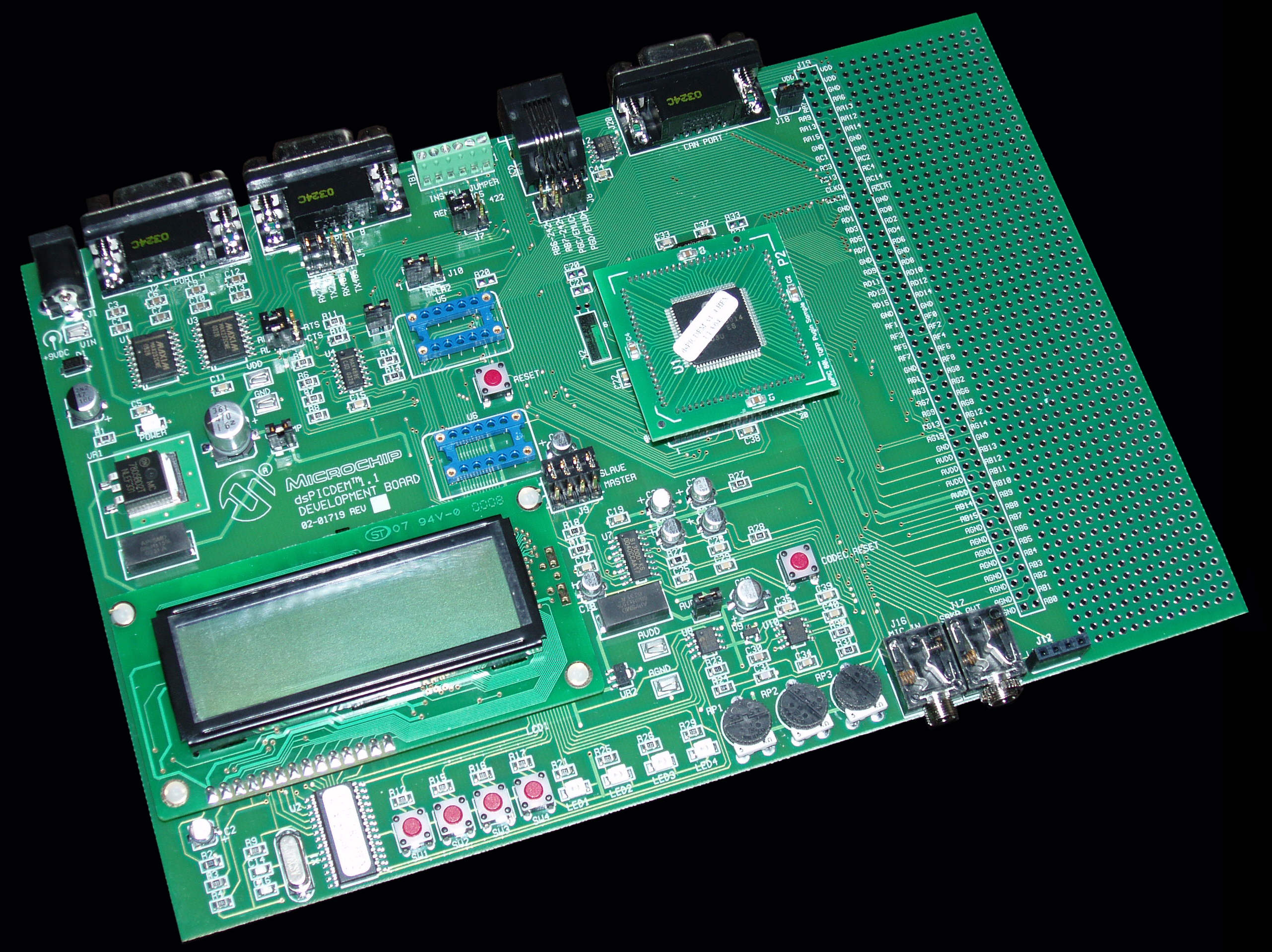 dsPICdem1.1 development board for dsPIC products from Microchip Technologies Inc.